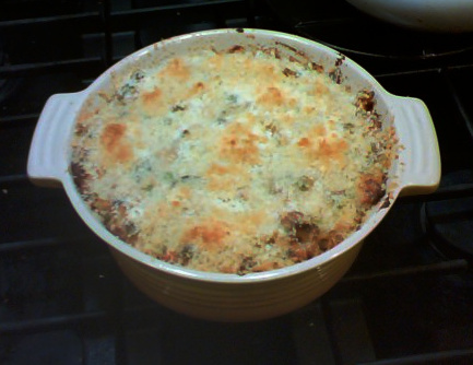 Tuna casserole is a casserole mainly composed of egg noodles and canned tuna fish, with canned peas and corn sometimes added. The casserole is often topped with potato chips, corn flakes or canned fried onions.